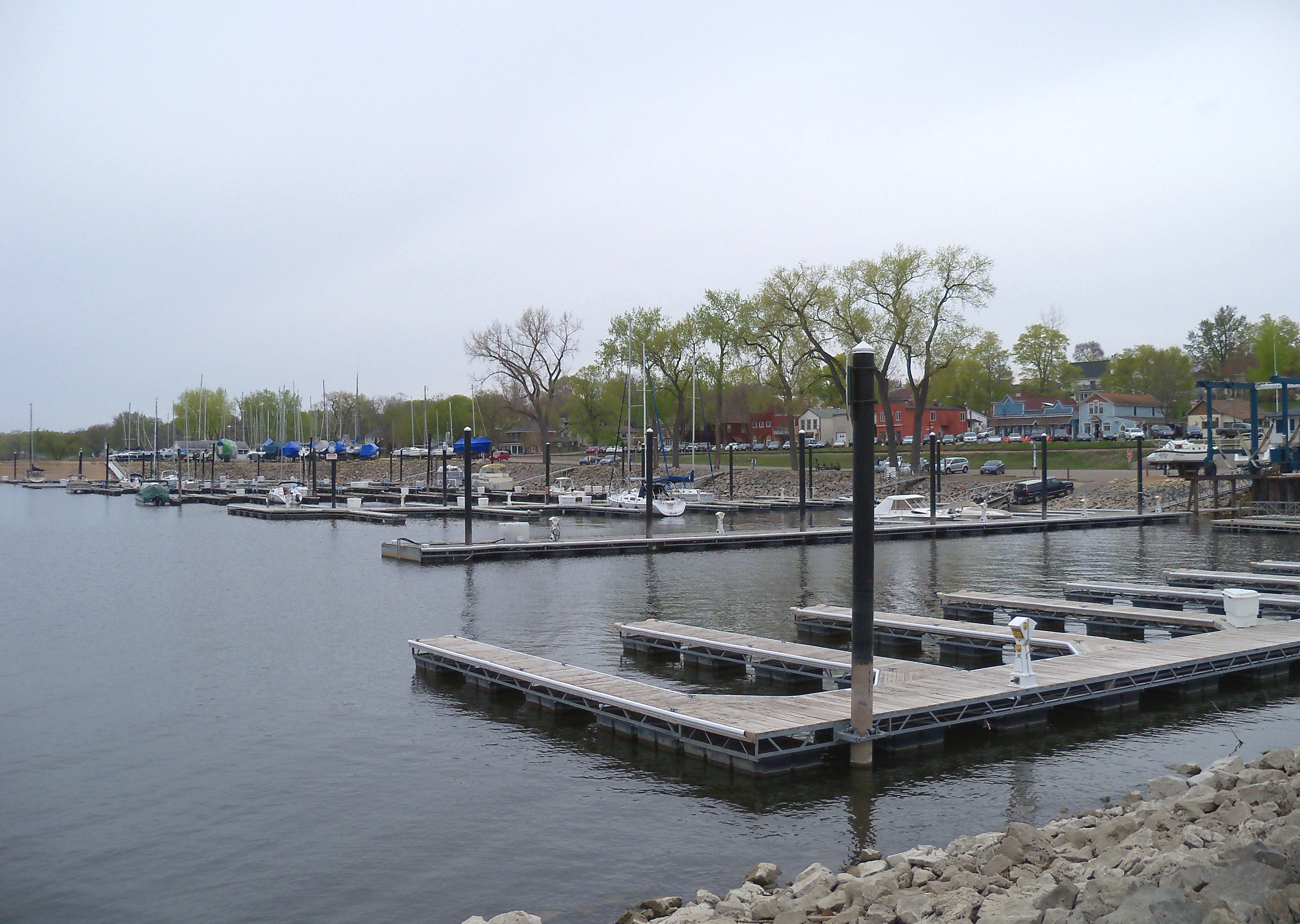 Marina on Lake Pepin in Pepin, Wisconsin, USA.